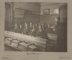 Helen Clarissa Morgan teaching